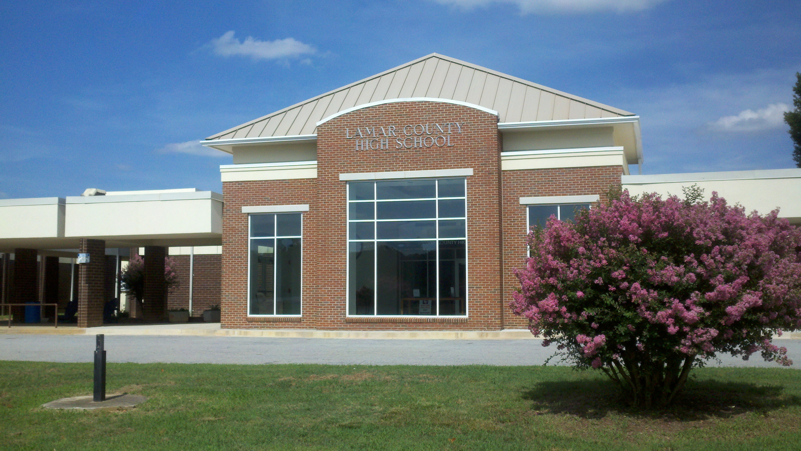 Lamar County Comprehensive High School